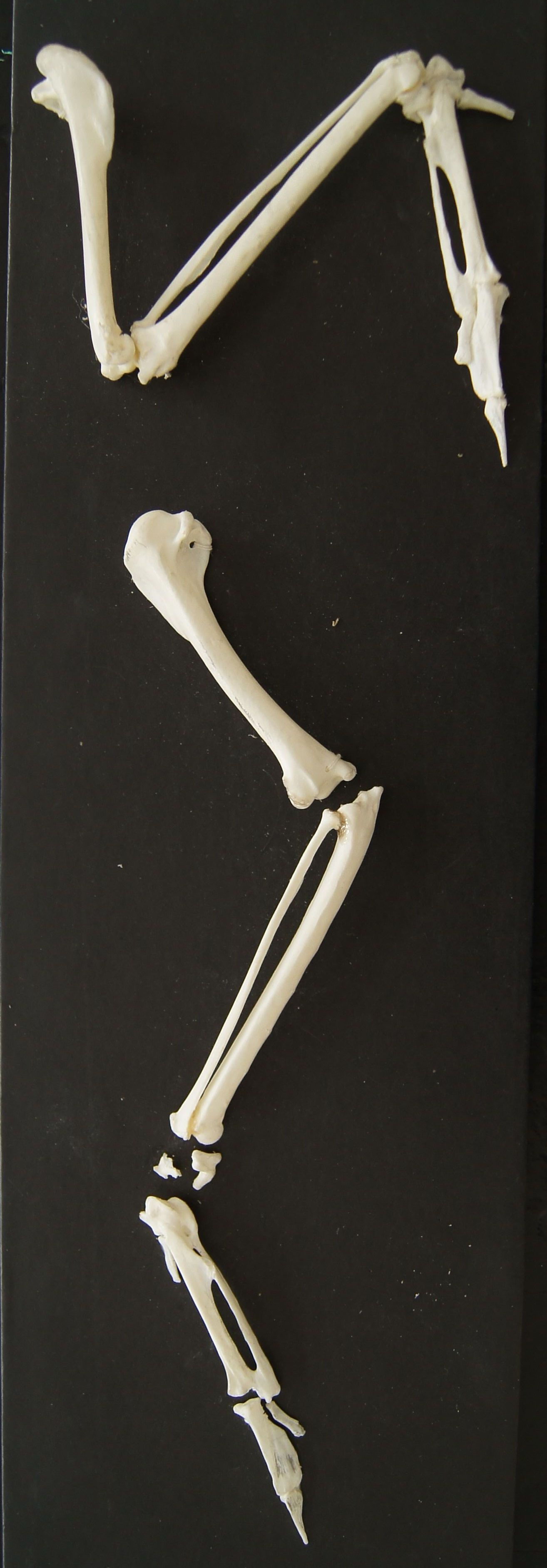 Wings of Corvus corone, from the collection of Moscow State Universe Faculty of Biology